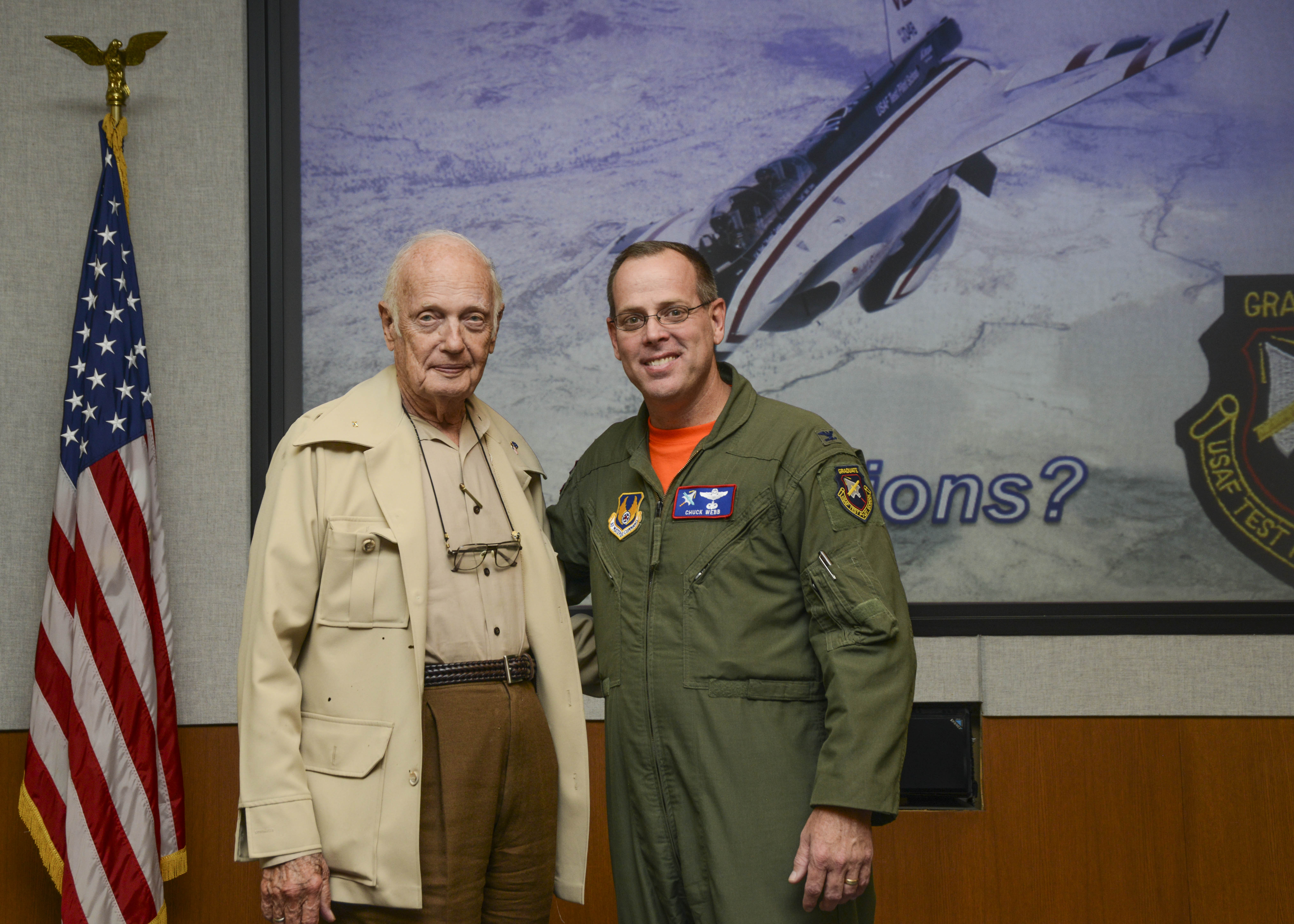 Current USAF Test Pilot School Commandant Col. Charles Webb (on right) and former Commandant Col. Eugene Deatrick (Ret) on left